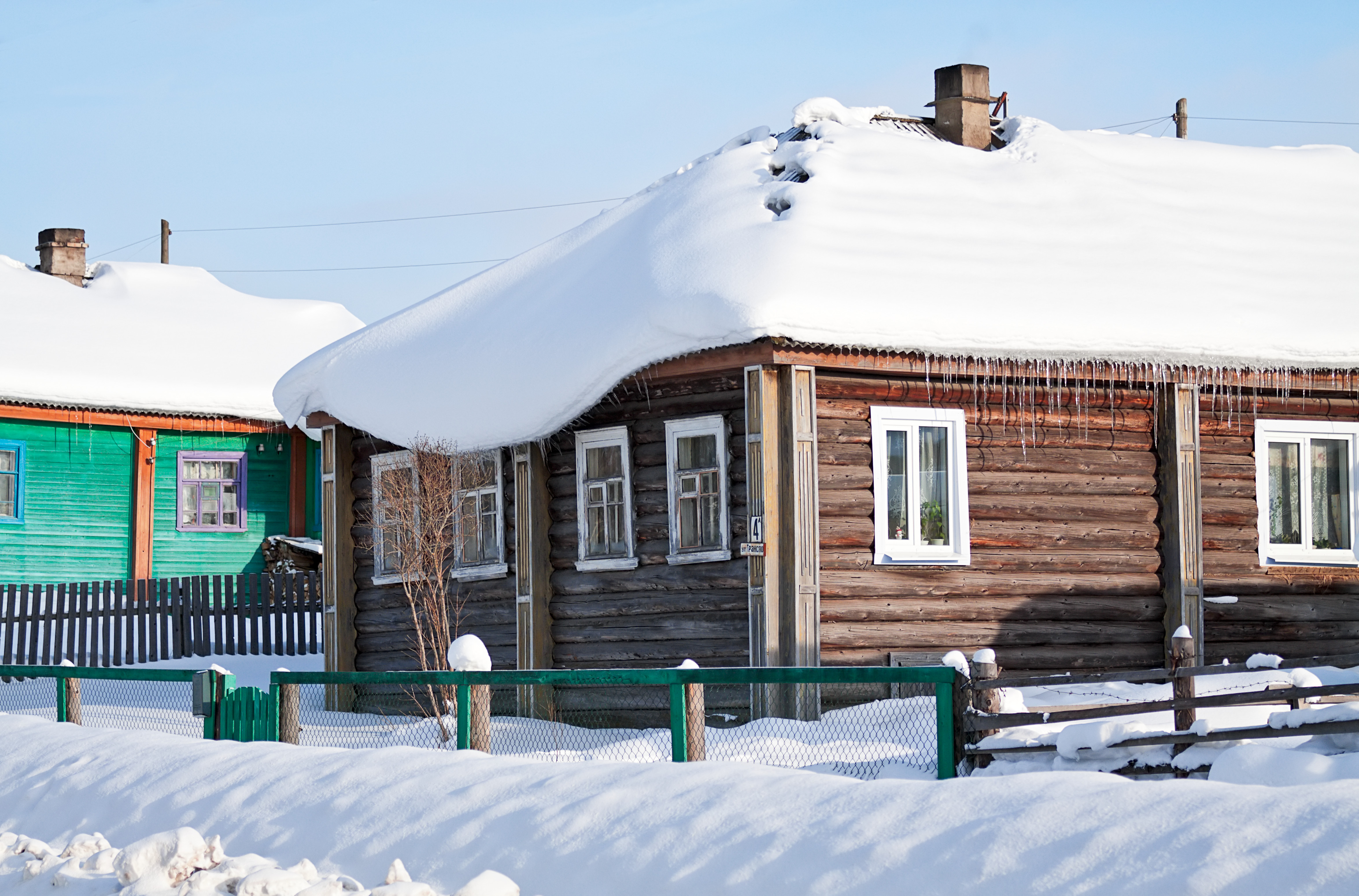 House in Pudozh town.